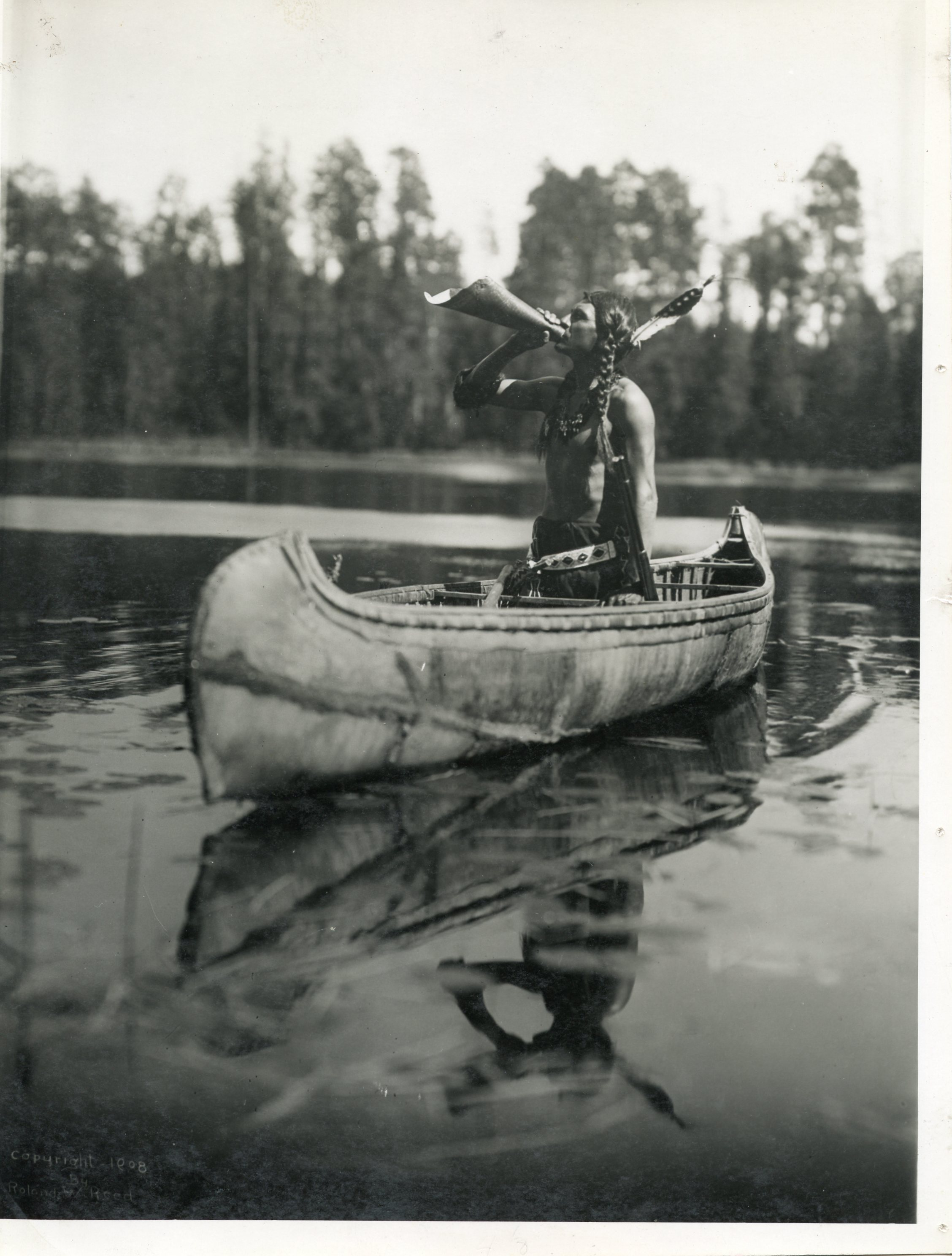 Ojibwe